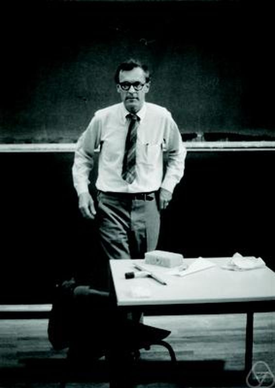 Laurie Snell, Erlangen 1975